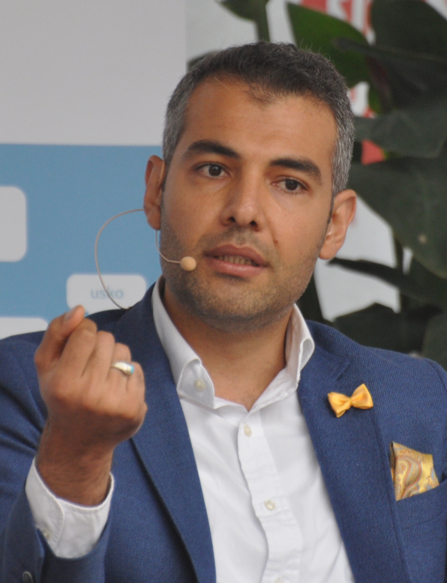 Finnish peace activist Hussein al-Taee at SuomiAreena in Pori, 2016.